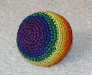 a footbag